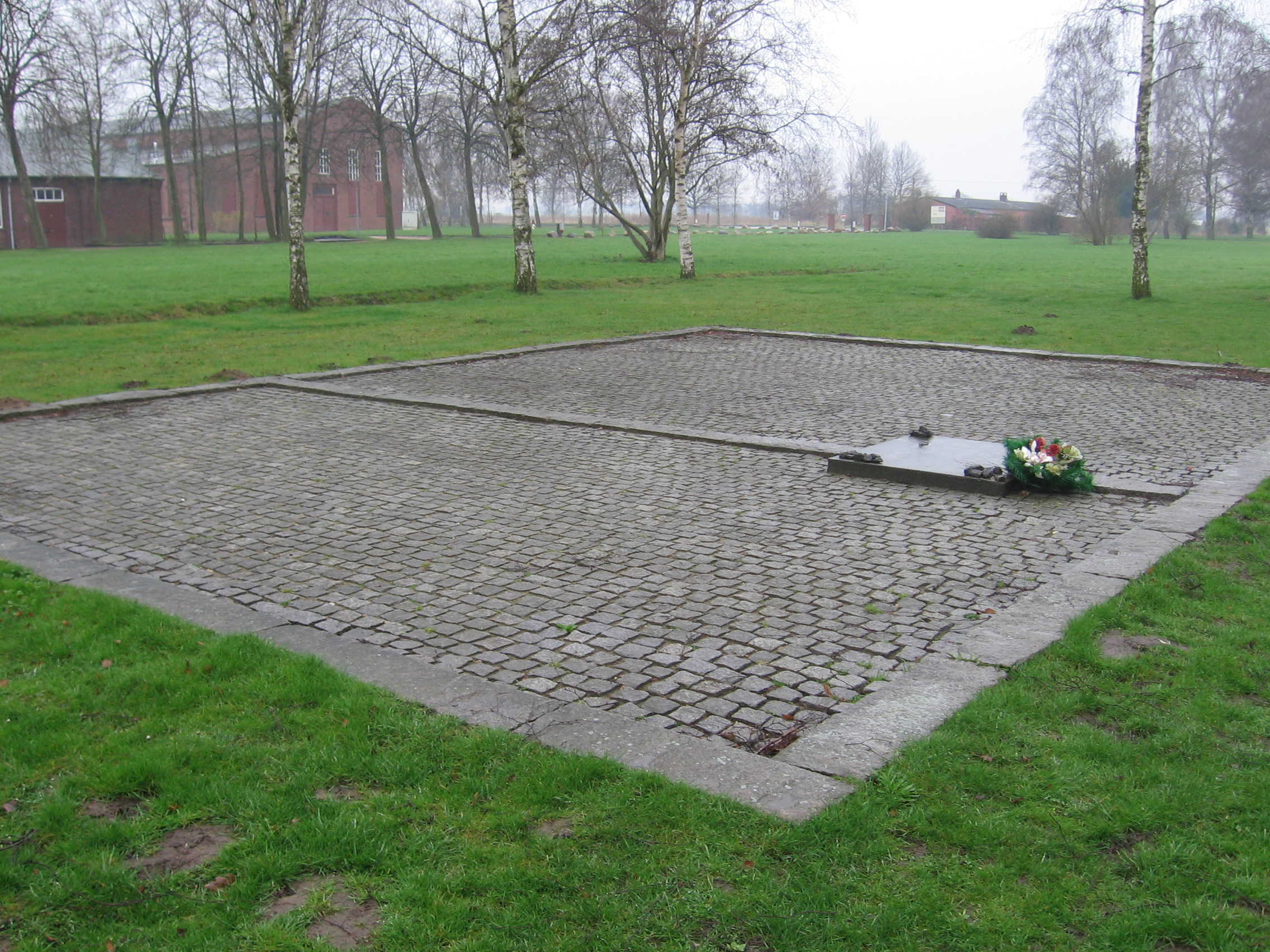 Slab in the German KZ Neuengamme that marks the place of the former crematorium.